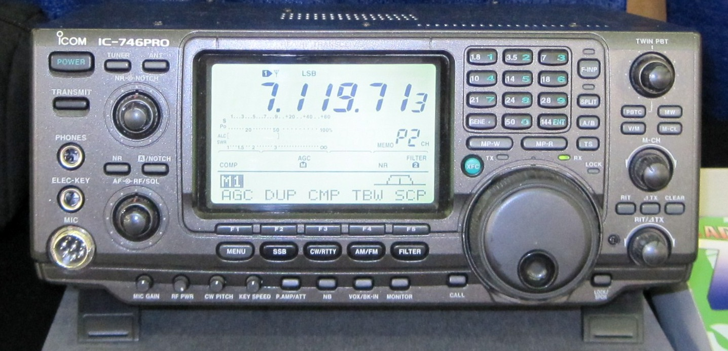 Icom IC-746PRO amateur radio transceiver. It can transmit on the amateur radio bands from 160 meters (1.8 MHz) to 2 meters (144 MHz) at powers up to 100 W.